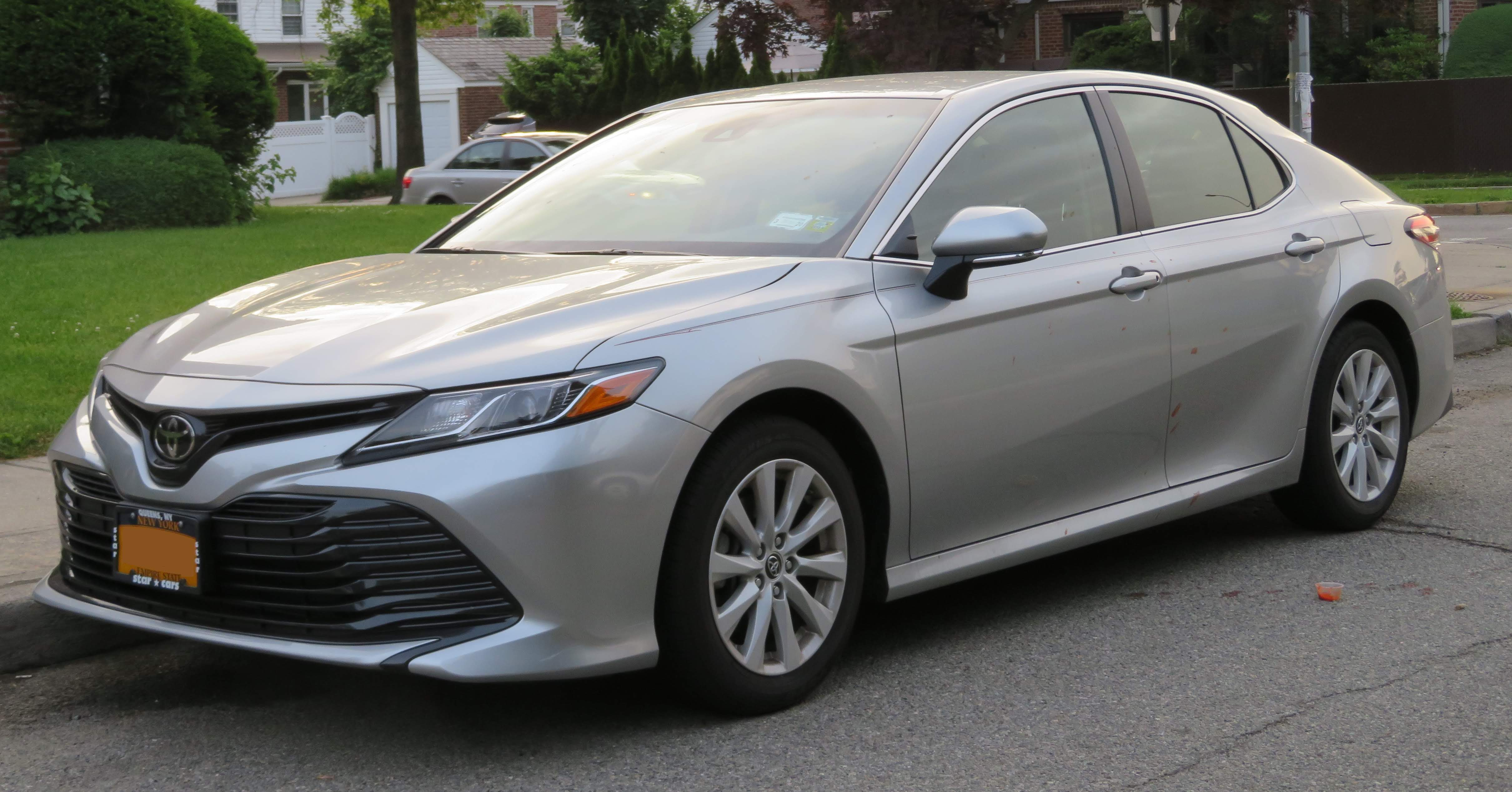 Photographed in Queens, New York